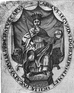 Seals of Charles II of Naples